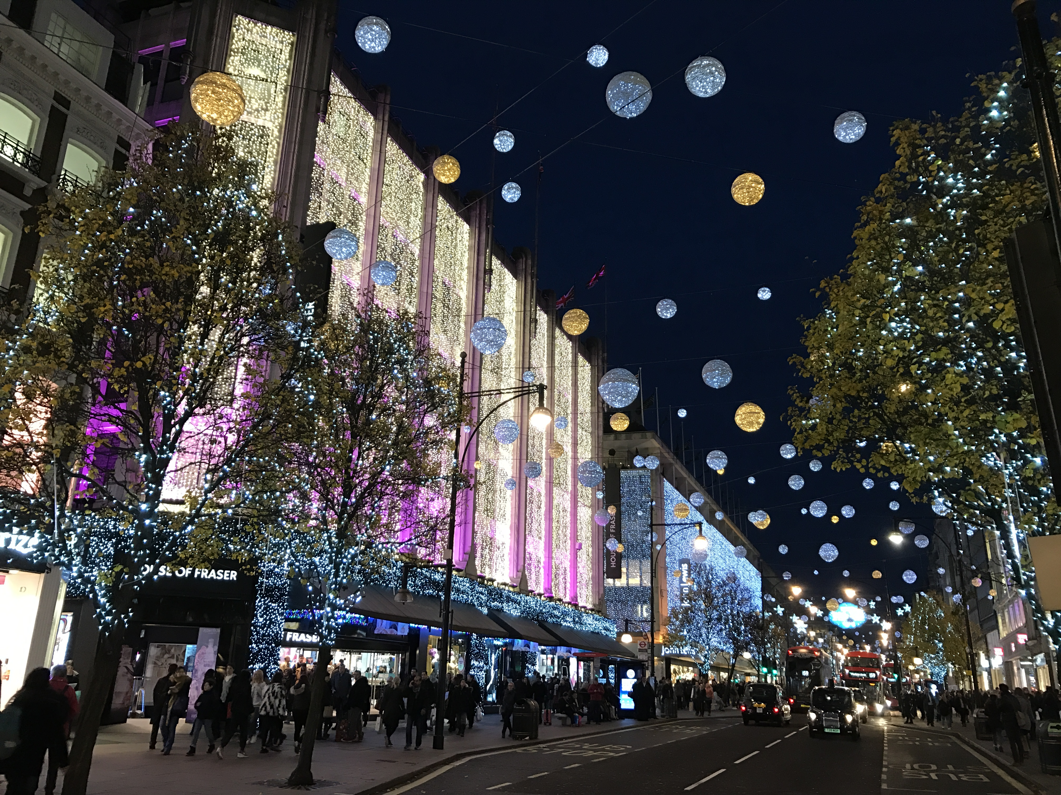 Christmas time in the Big Smoke - Magical!